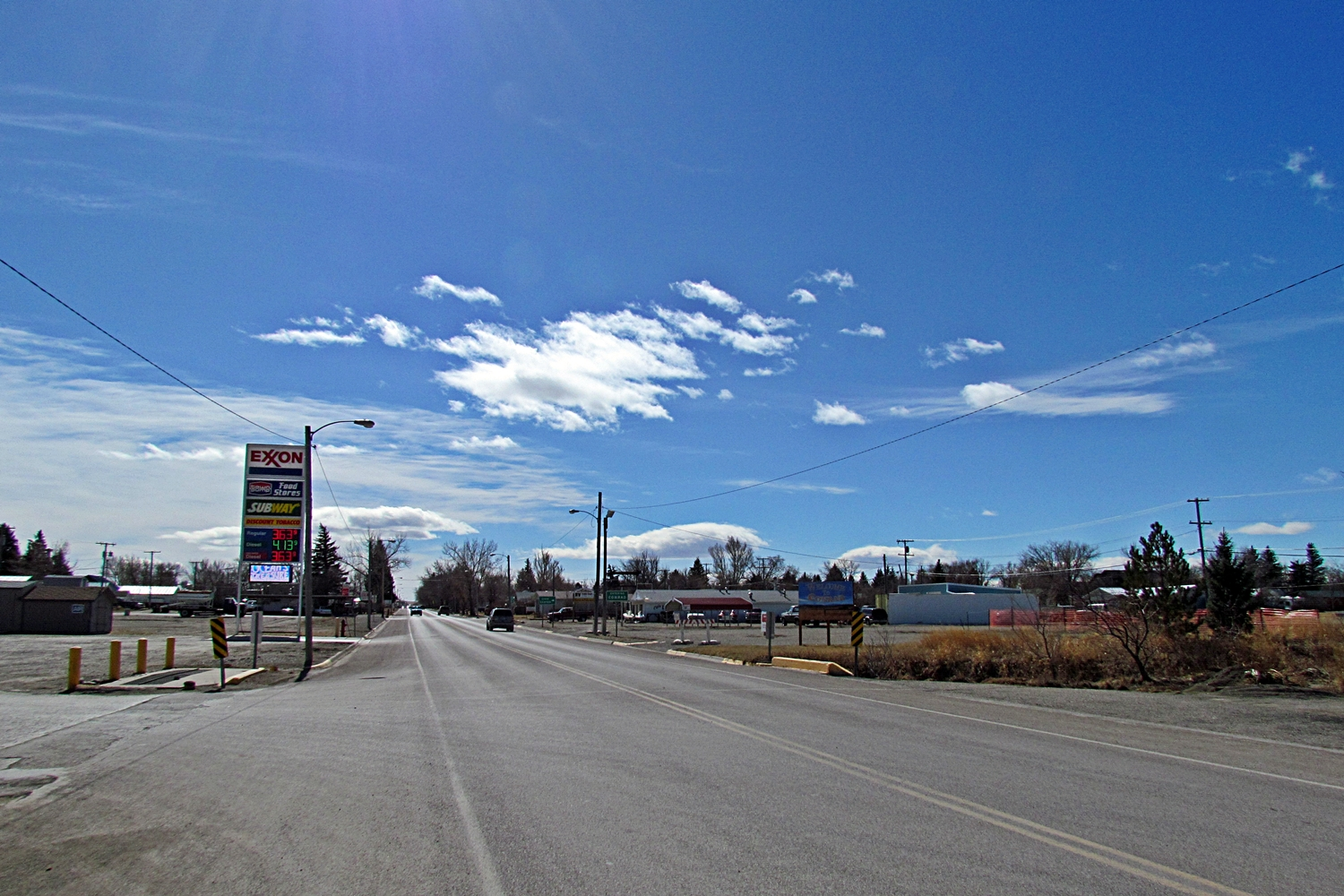 Conrad is a city in and the county seat of Pondera County, Montana, United States. The population was 2,570 at the 2010 census. According to the United States Census Bureau, the city has a total area of 1.2 square miles (3.1 km2), all of it land. Source:Wikipedia